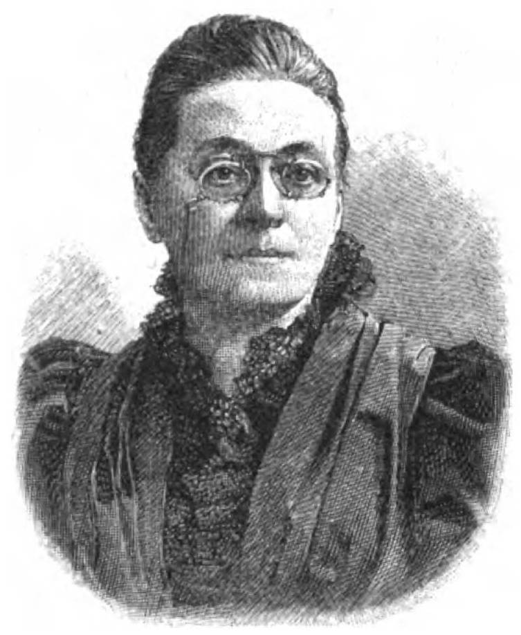 no caption